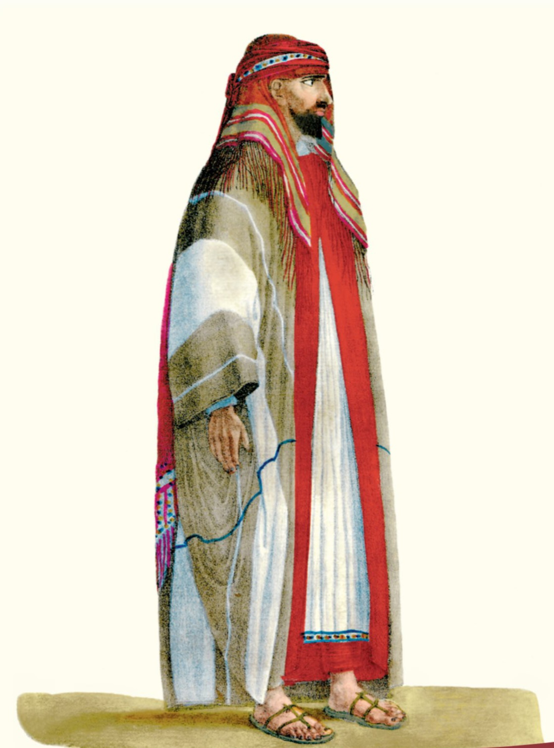 A Handmade image for Abdullah I (The last governer of the First Saudi State).